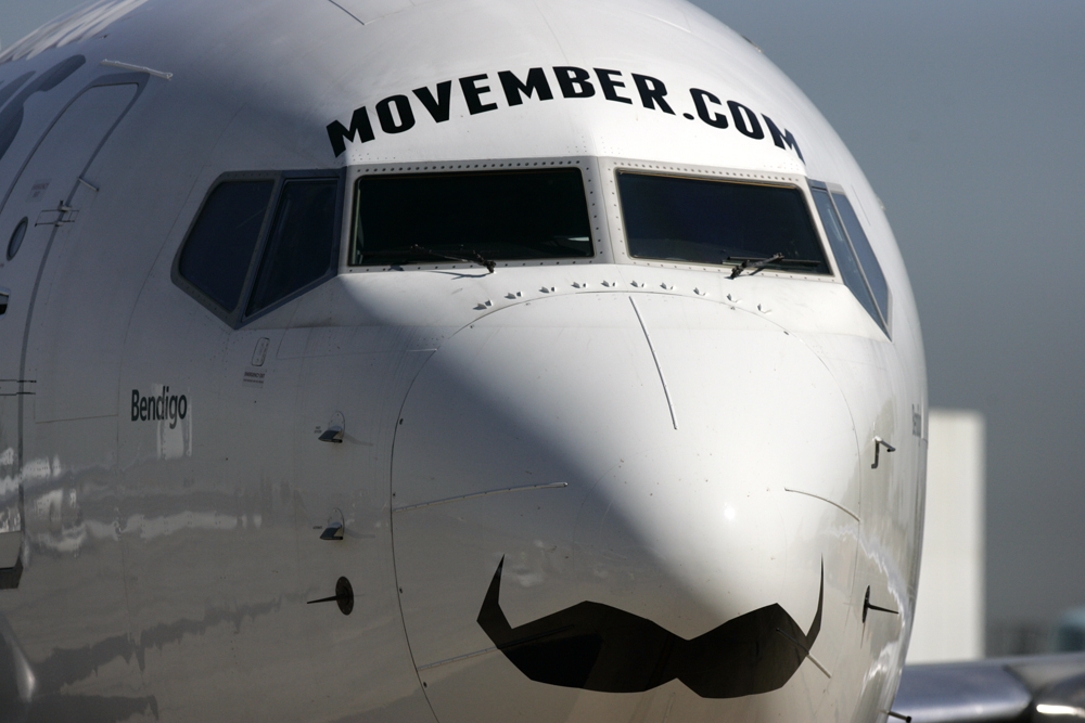 The Qantas Wallabies unveil a Boeing 737-800 aircraft sporting a giant moustache which will fly around the country for the month of November raising awareness of prostate cancer and men's mental health.